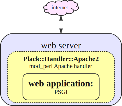 Deploying PSGI app with mod_perl and Apache using Plack::Handler::Apache2